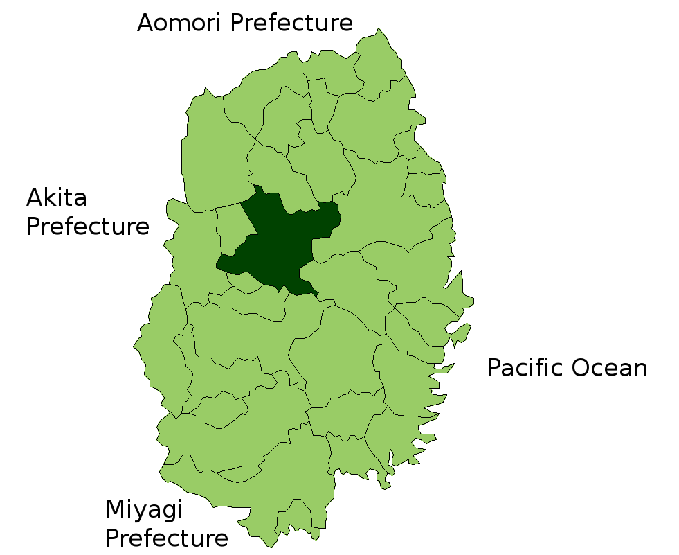 Location Map of Morioka in Iwate Prefecture, Japan